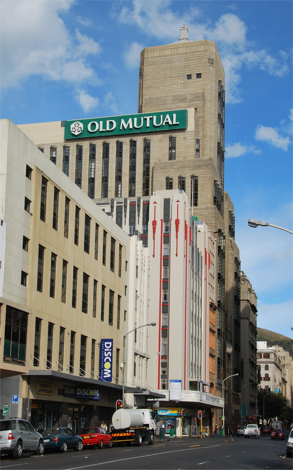 The Mutual Building, seen from Darling Street, Cape Town.